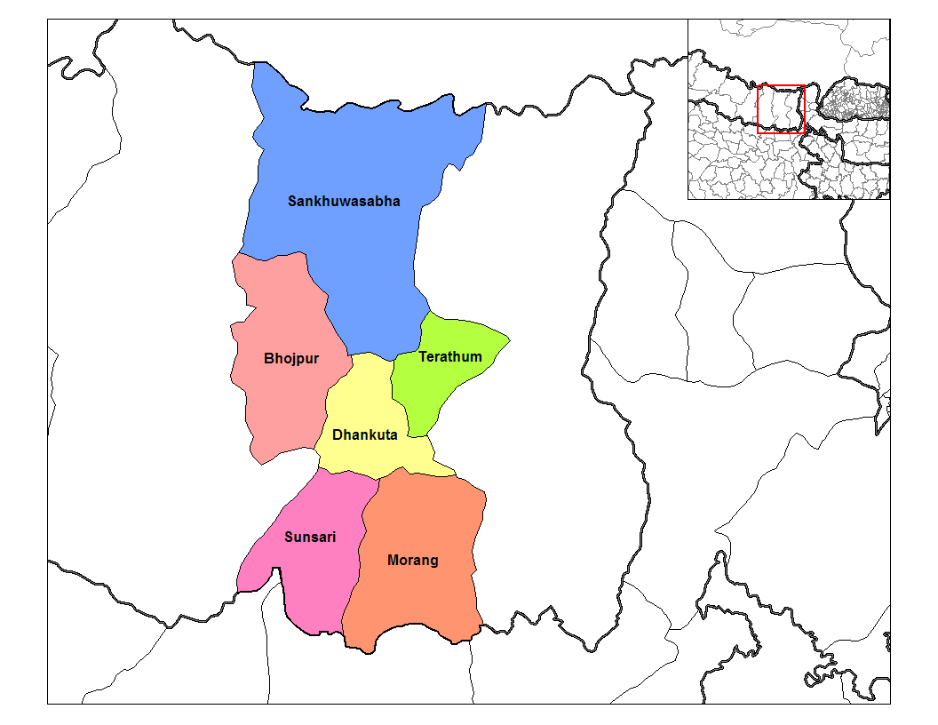 Map of the districts of Koshi Zone (wp-EN) in Nepal. Created by Rarelibra 19:00, 18 September 2006 (UTC) for public domain use, using MapInfo Professional v8.5 and various mapping resources.